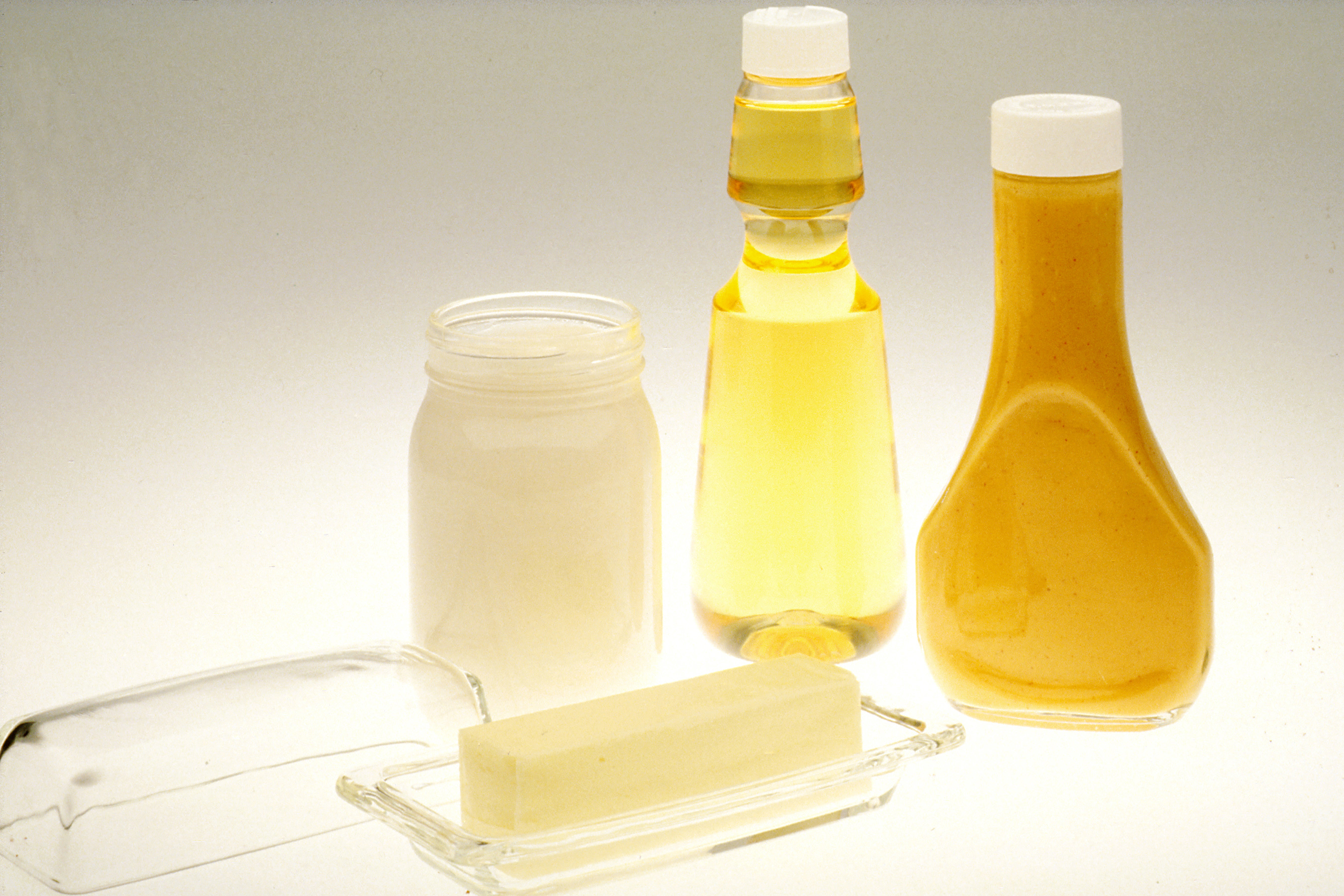 On an ivory background sits a stick of butter in a glass tray, a jar of mayonnaise, a bottle of oil and a bottle of salad dressing. AV Number: AV-8900-3829 Reuse Restrictions: None - This image is in the public domain and can be freely reused. Please credit the source and/or author listed above.